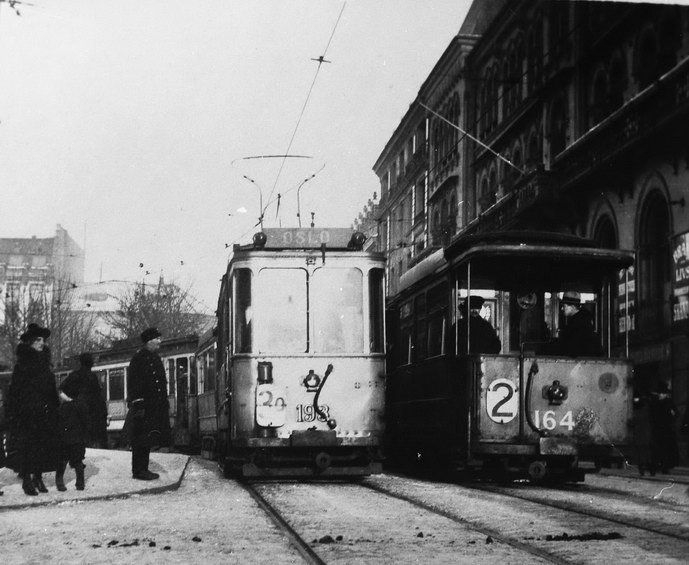 Kristiania Elektriske Sporvei trams 193 (Herbrand) on line 3o and tram 164 (Union) on line 2 at Athenæum, Akersgata